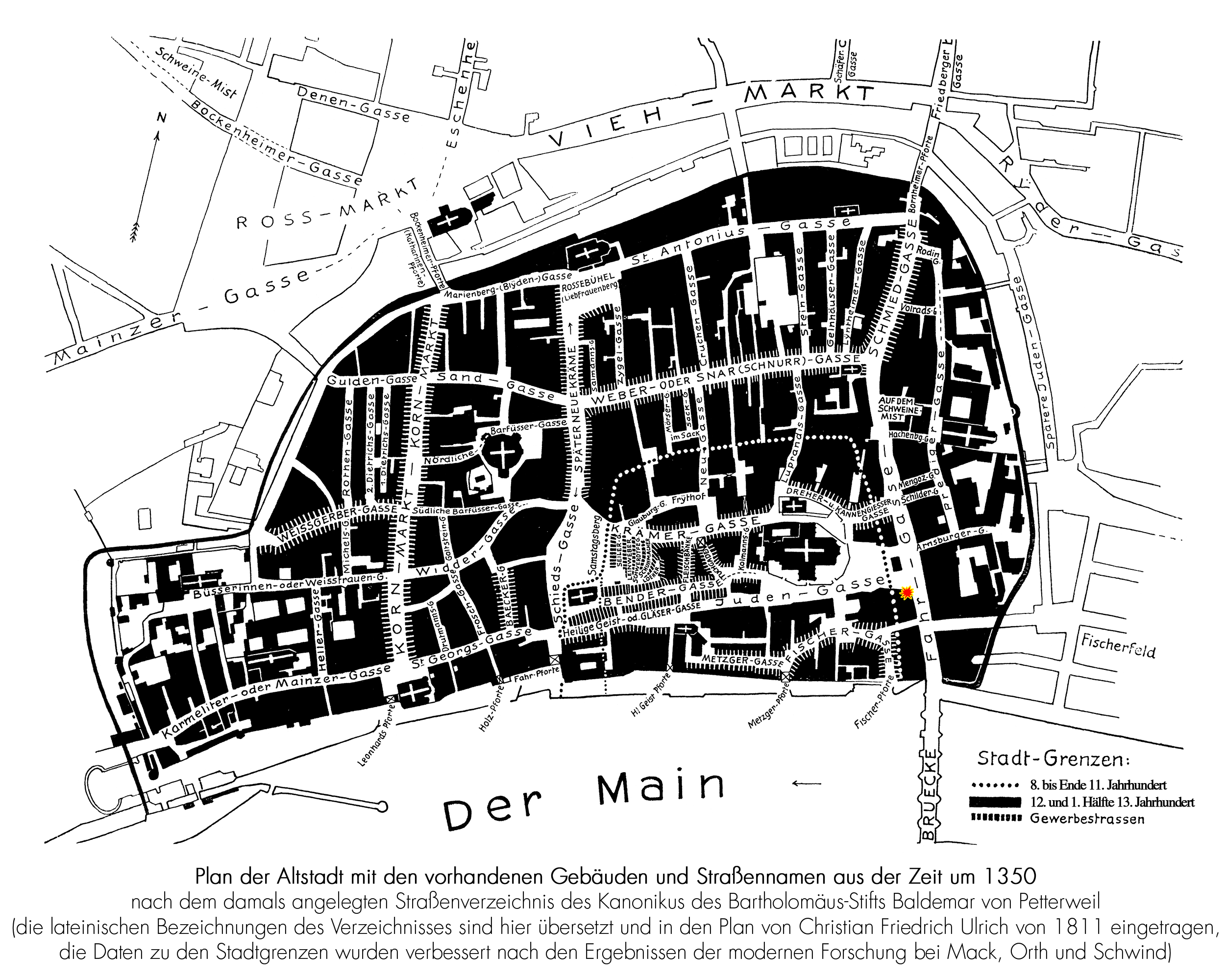 Frankfurt on the Main: Plan of the Altstadt (Old Town) with the buildings and street names present in the time around 1350 according to a street directory created by the canon of the Bartholomaeusstift (Bartholomew Monastery) Baldemar von Petterweil (Baldemar of Petterweil); the position of house Fuersteneck is highlighted by a couloured star